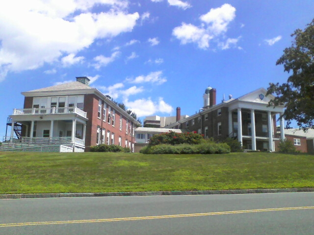 Beverly Hospital - One of the Oldest part of the hospital, the Lynch (left) and Loring/Administration (to the right) buildings.